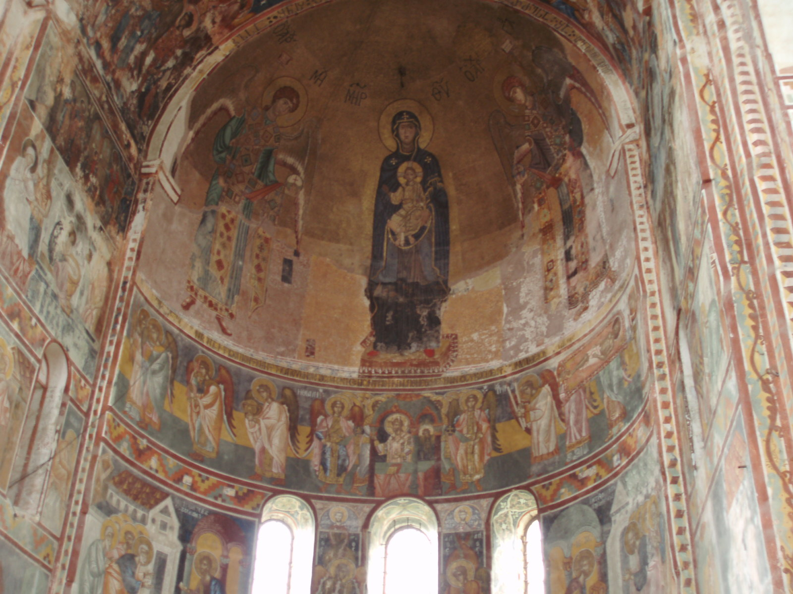 Gelati Monastery